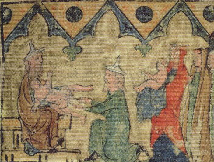 "Isaac’s Circumcision" from fol. 81b of the Regensburg Pentateuch, Germany, ca. 1300